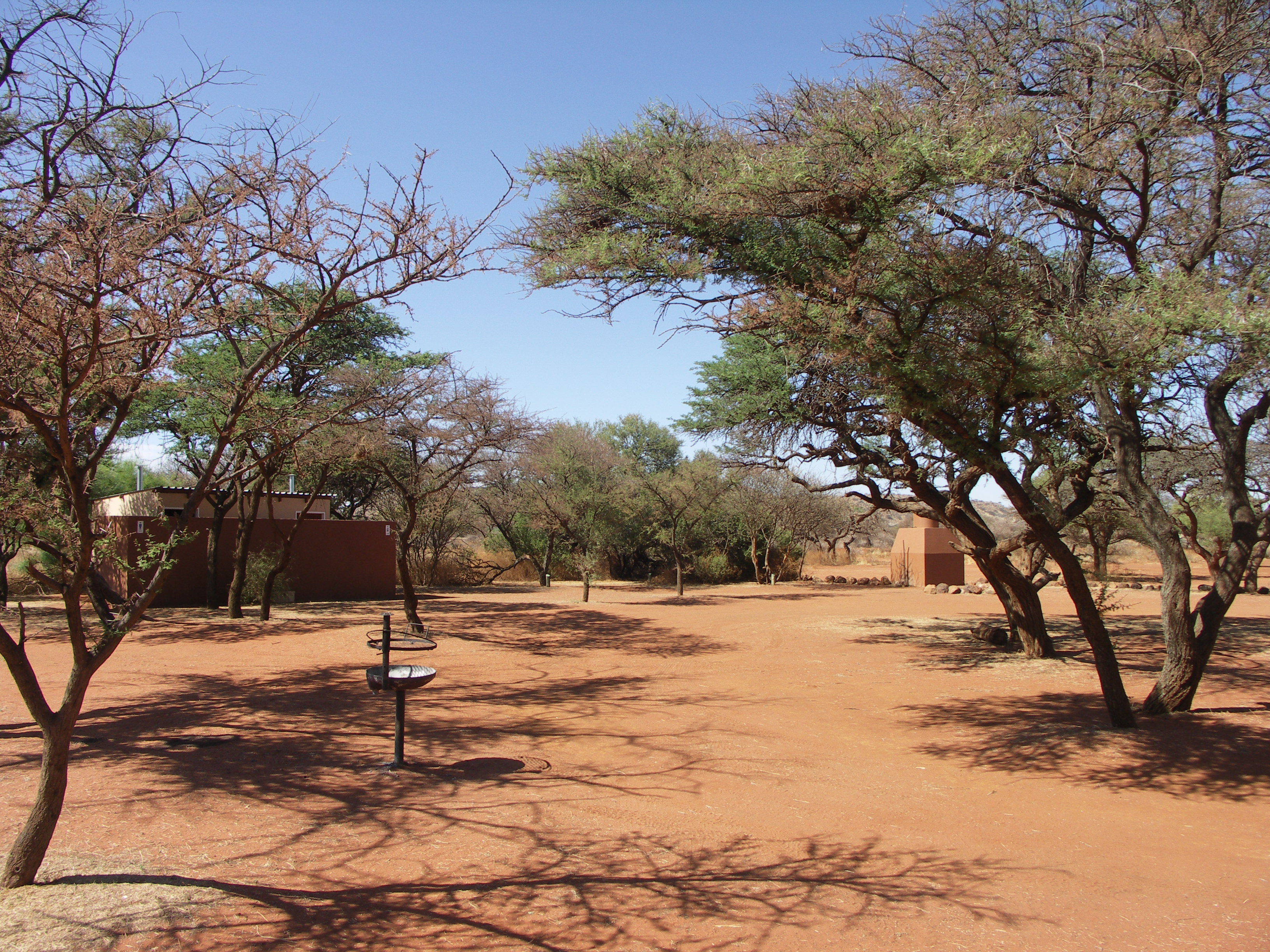 Haak-en-Steek campsite in the Mokala National Park, South Africa